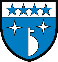 Coat of arms of Grimentz in Switzerland (Canton of Valais)